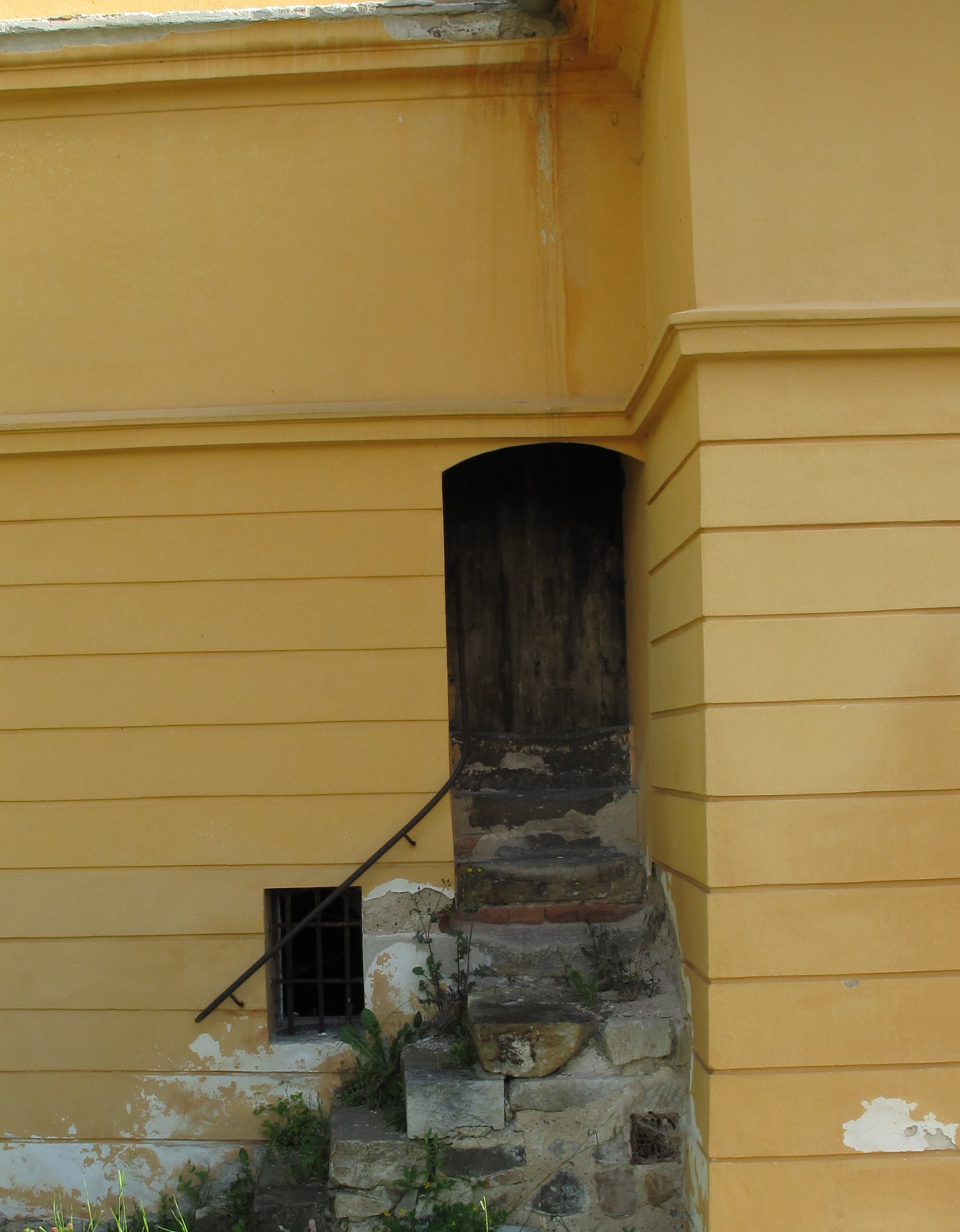 Starcaise to the church in Prackovice nad Labem village, Litoměřice District, Czech Republic.